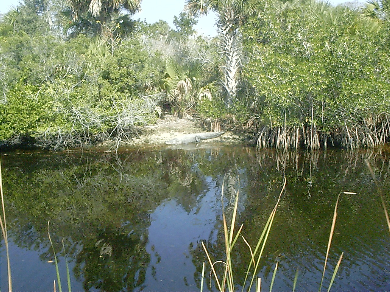 Tamiami Trail (US 41) about halfway between Miami & Naples, visible wild gator.